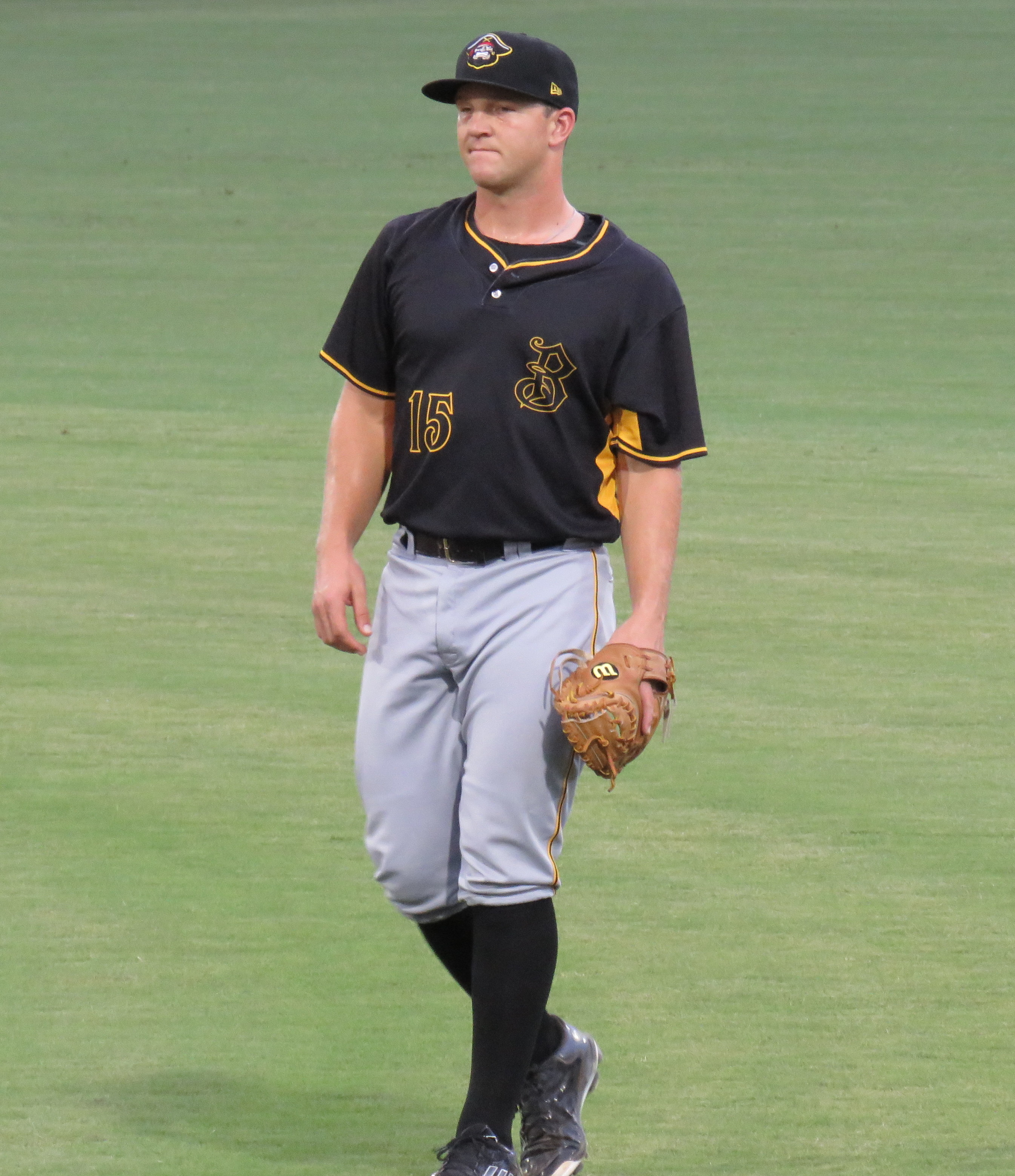 Bormann in the field